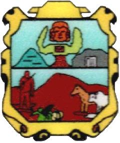 imagen del dominio publico de la presidencia municipal de ocampo ¿Tamaulipas, México?